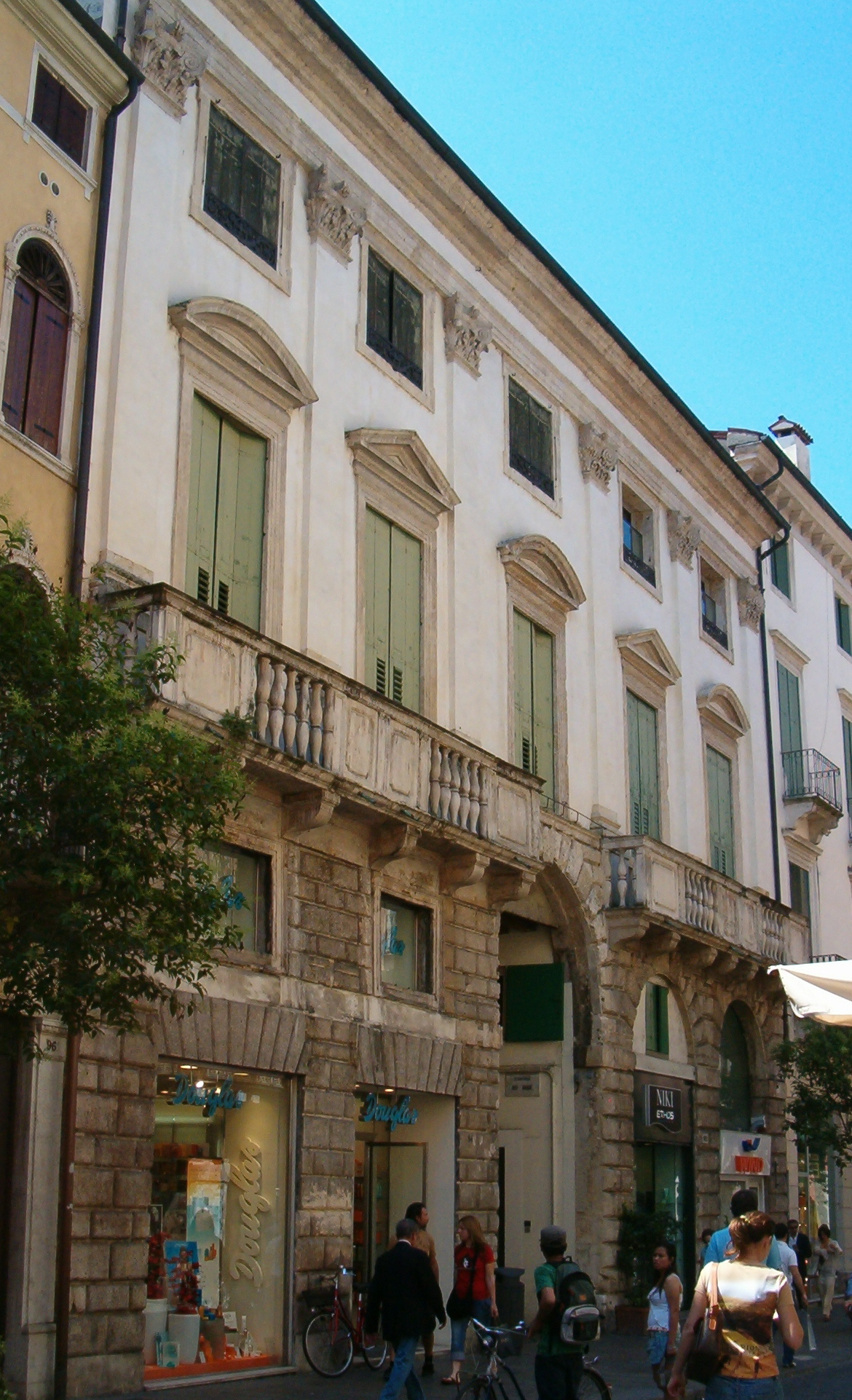 Palazzo Poiana in Corso Palladio in Vicenza, attributed to Andrea Palladio.